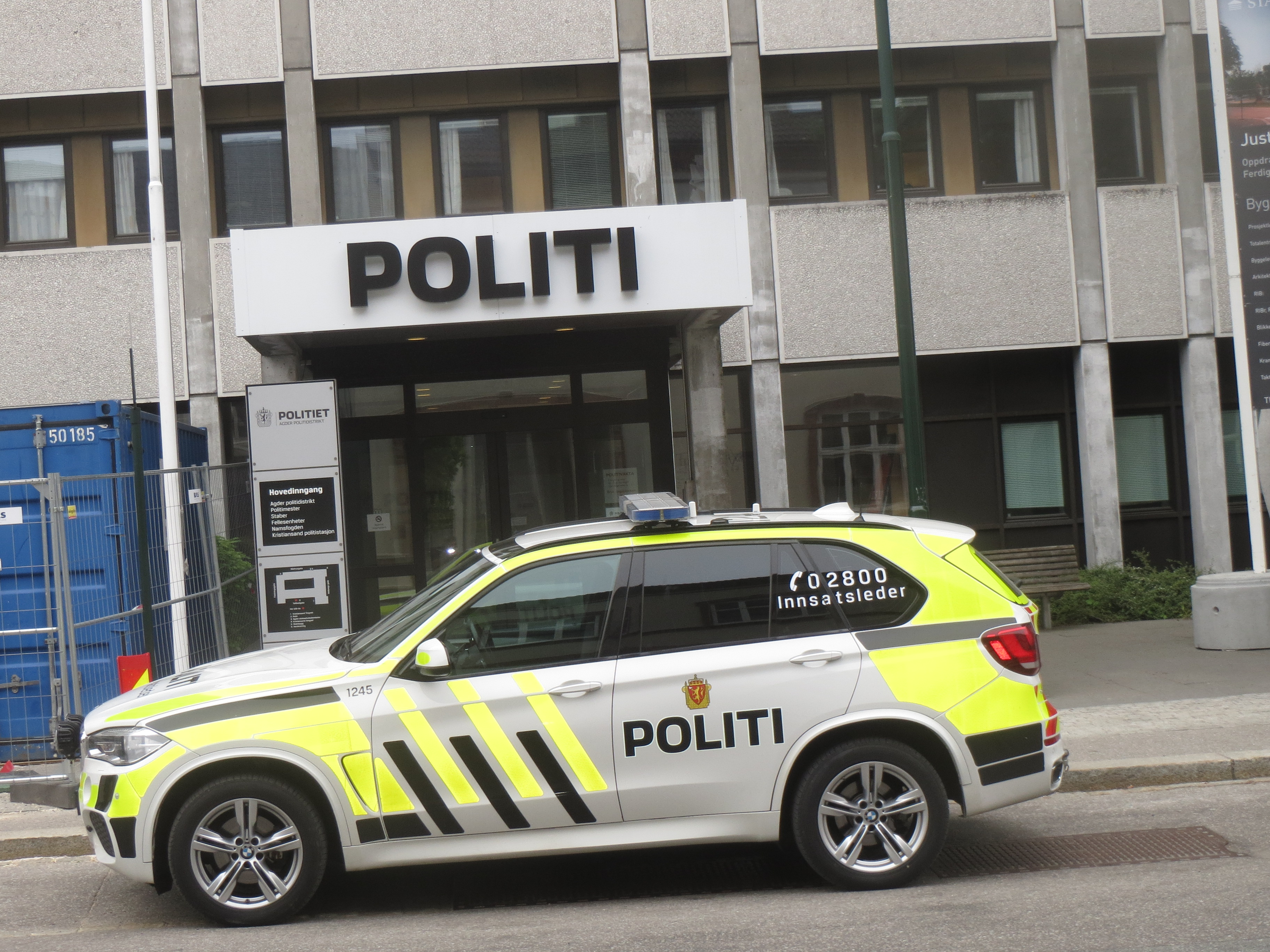 Police car outside the Kristiansand Police Station 2017